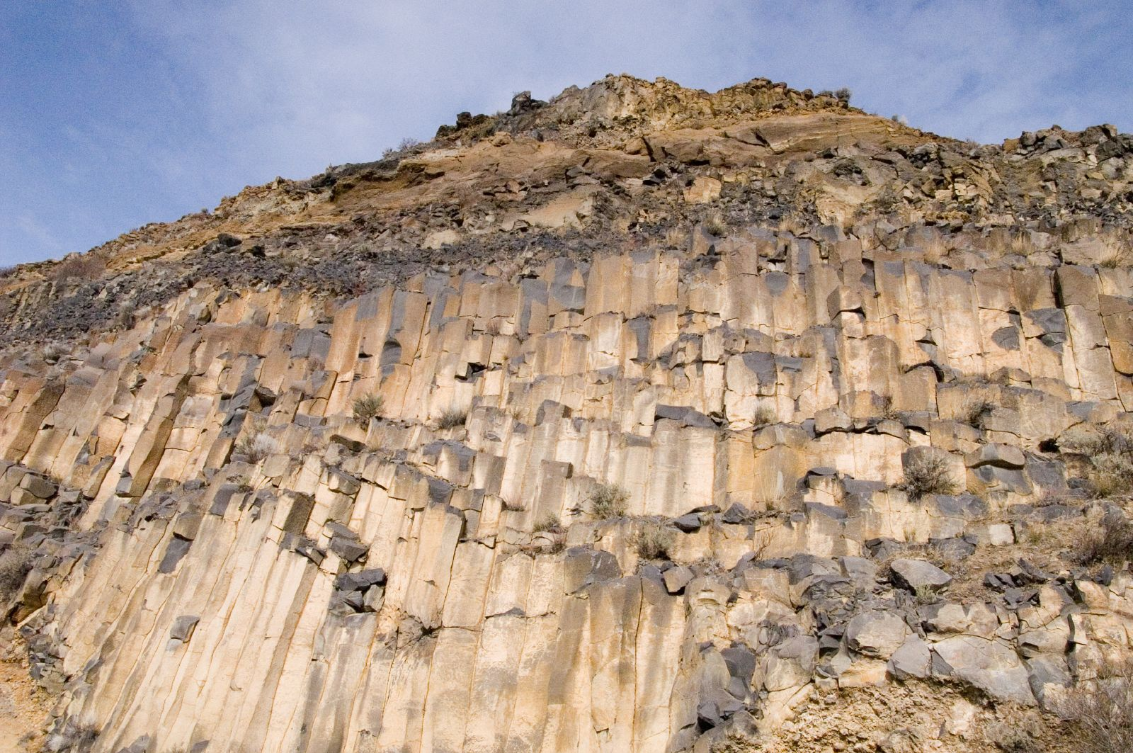 Columns of basaltic andesite of the Deschutes Formation in the Cove Palisades State Park in Oregon, USA. The rock is of Neogene age.